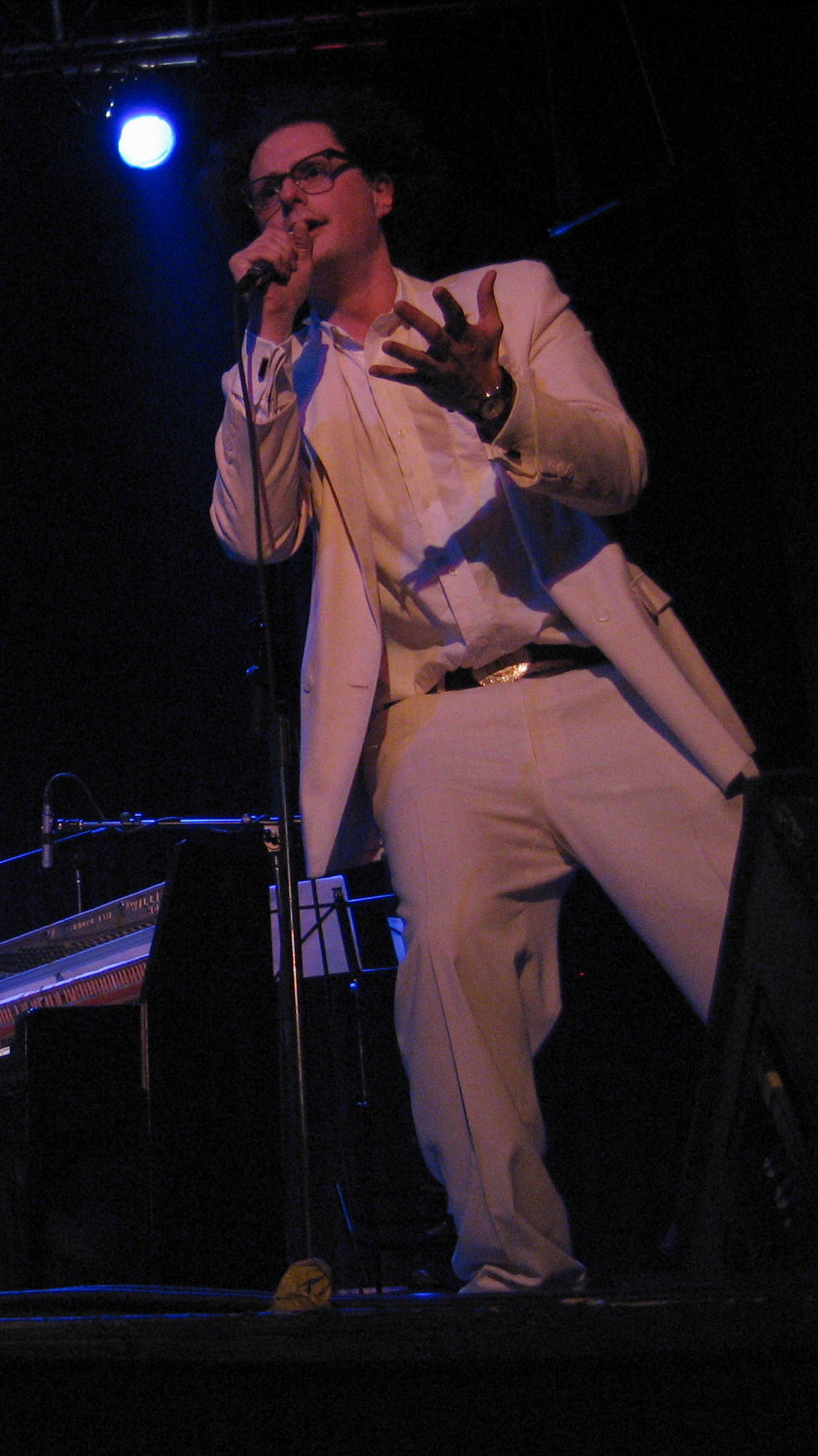 Cropped from a photograph of Socalled (real name Josh Dolgin), which was uploaded to Flickr by its author Simon Law under a Creative Commons Attribution-Share Alike 2.0 Generic license. Author profile gives express permission to license photo under the Creative Commons Attribution-ShareAlike license, version 3.0.